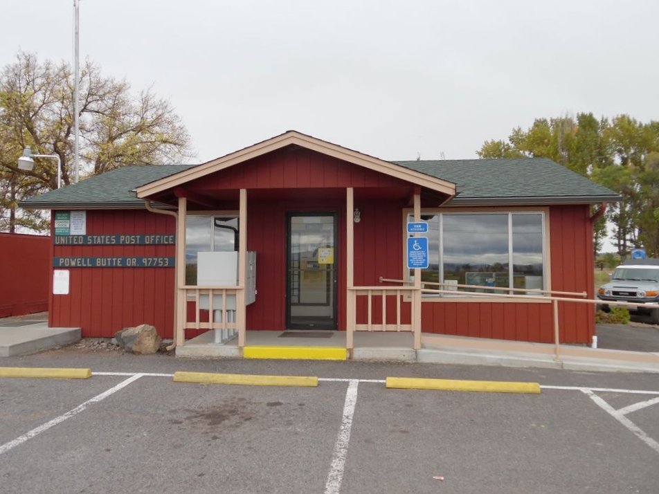 Powell Butte post office in central Oregon